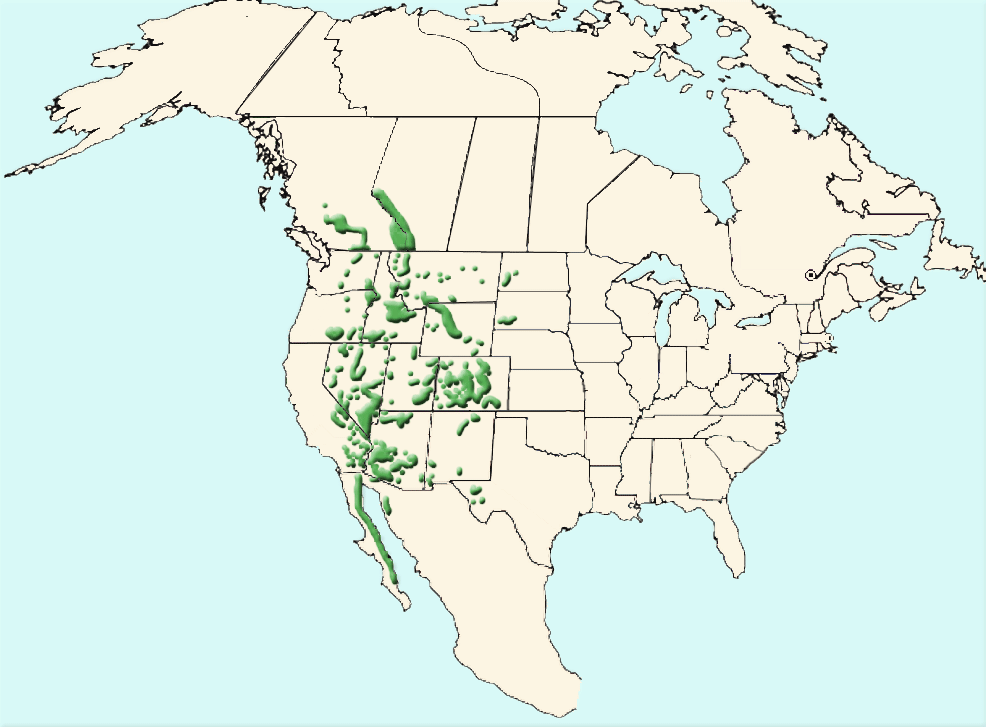 Range map of Ovis canadensis.